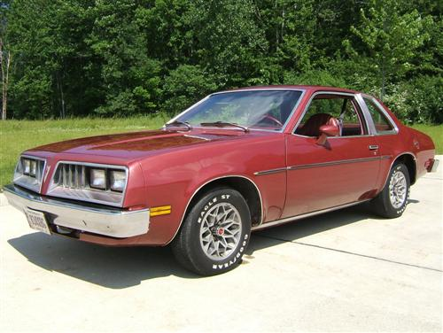 1978 Pontiac Sunbird Sport Coupe